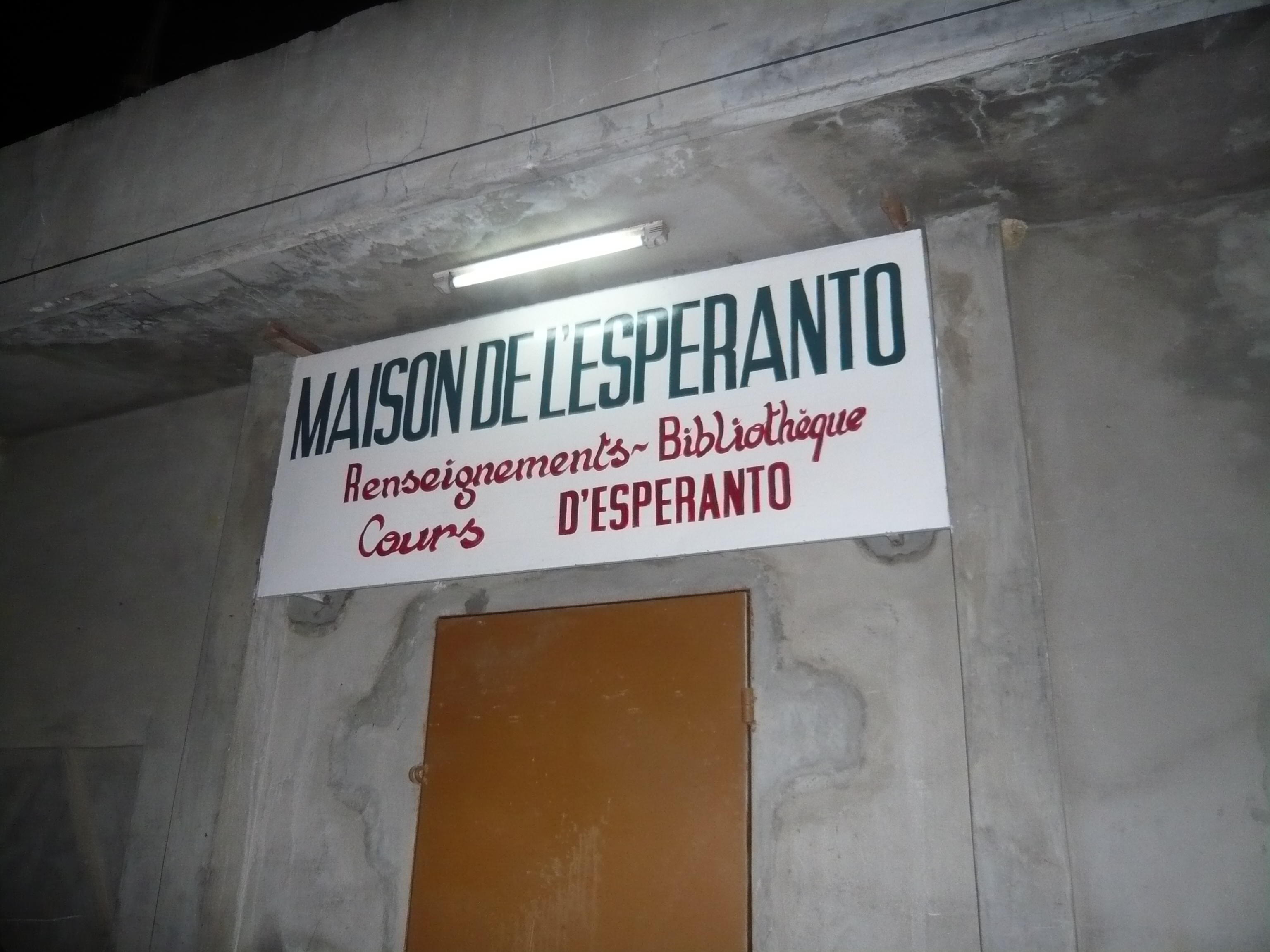 Esperanto house in Kotonuo